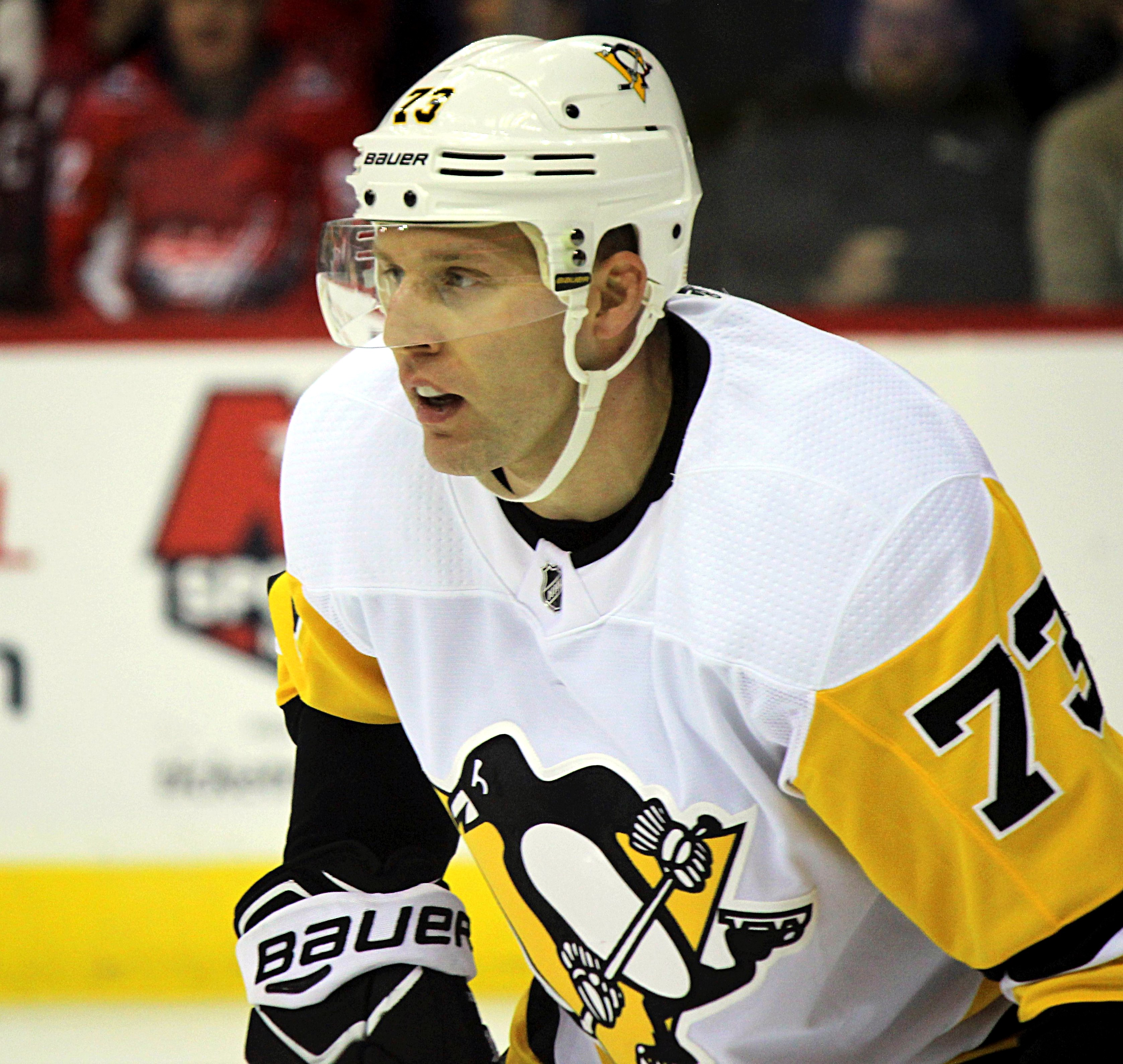 Pittsburgh Penguins defenseman Jack Johnson